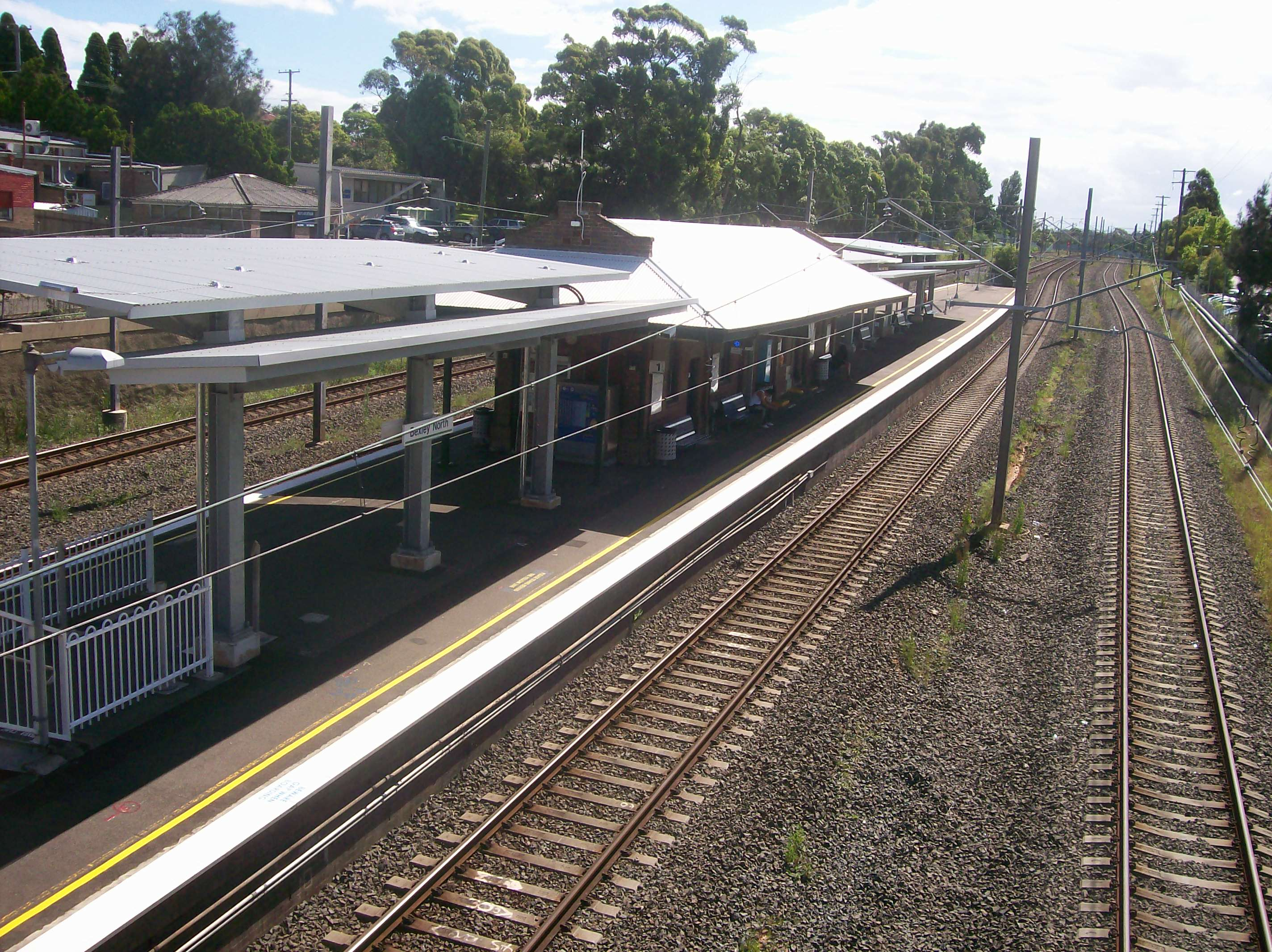 Bexley North railway station